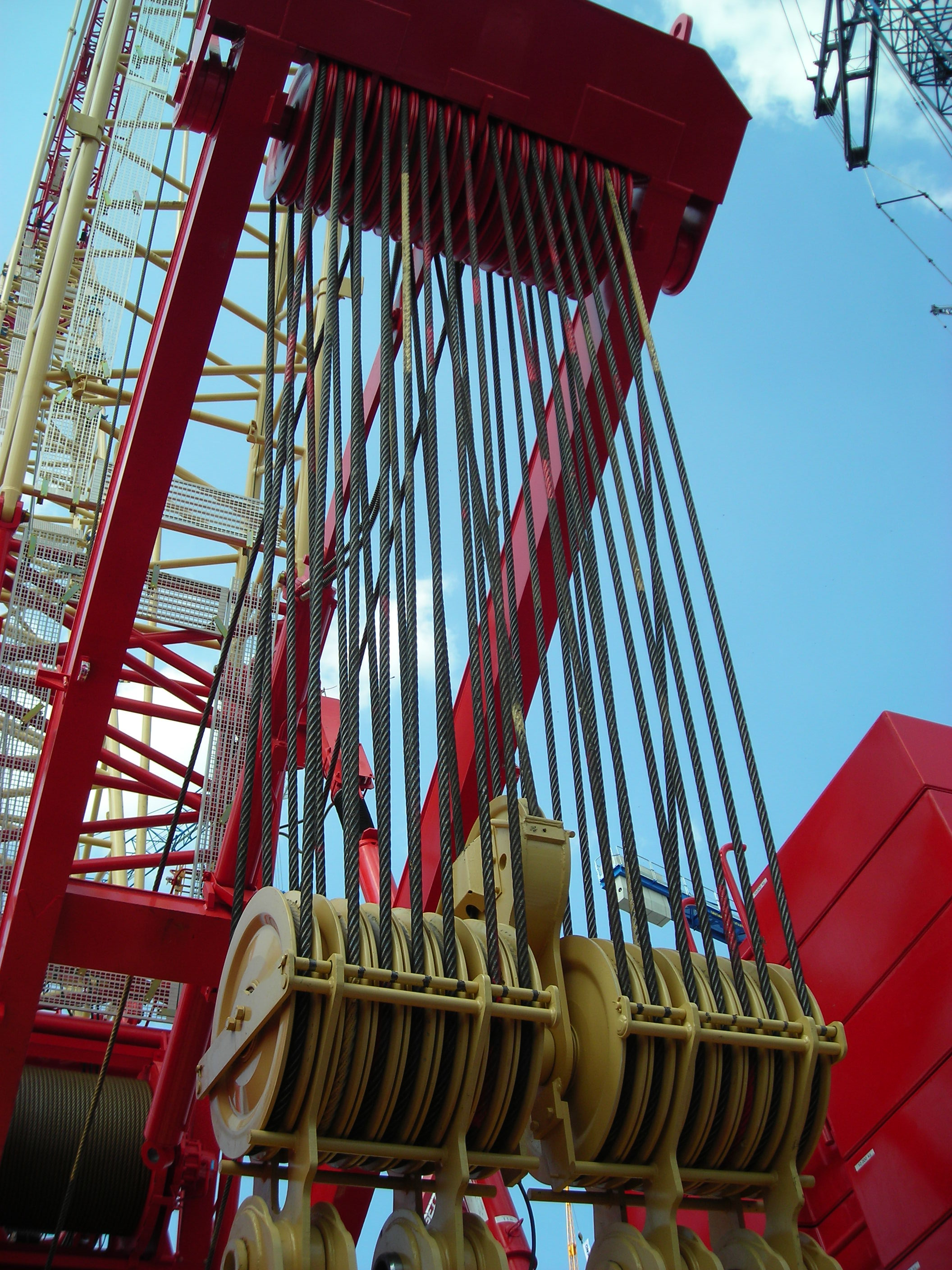 Kobelco SL6000 Hydraulic Crawler Crane, displayed at the bauma fair Munich, 2007